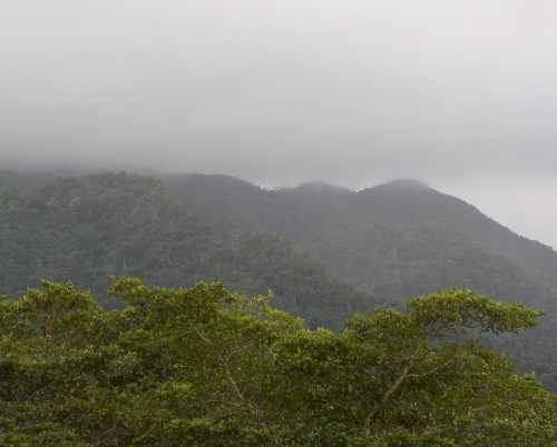 Maya Mtns Cayo District Belize Central America